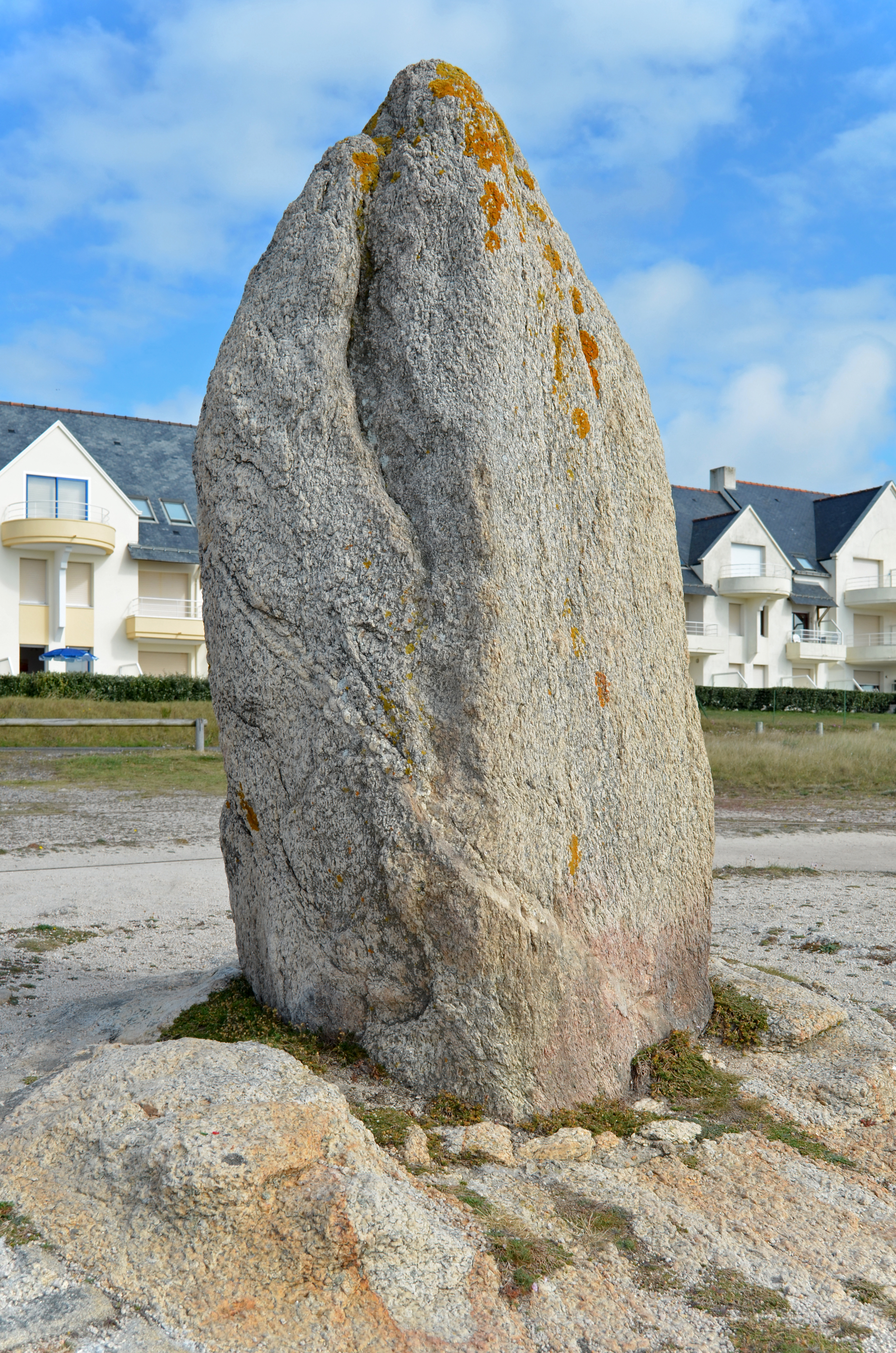 Menhir called Pierre Longue - Le Croisic, Loire-Atlantique, France .